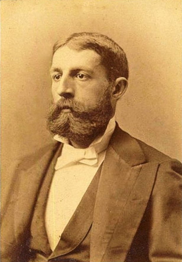 American painter Edwin Lord Weeks (1849-1903)